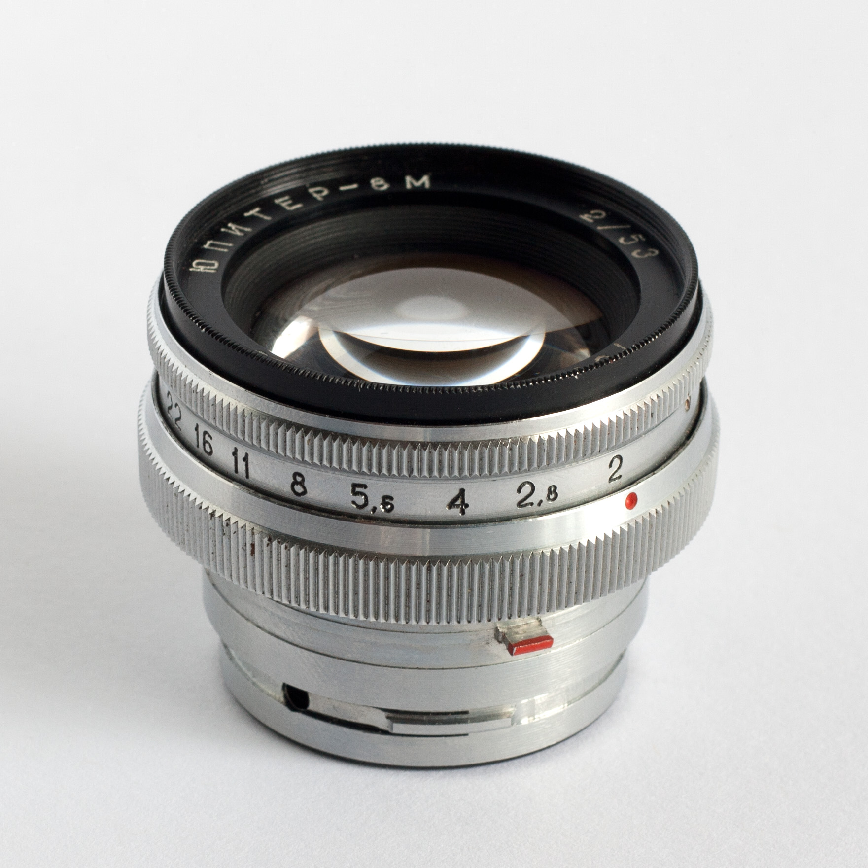 Jupiter-8M lens with Contax mount